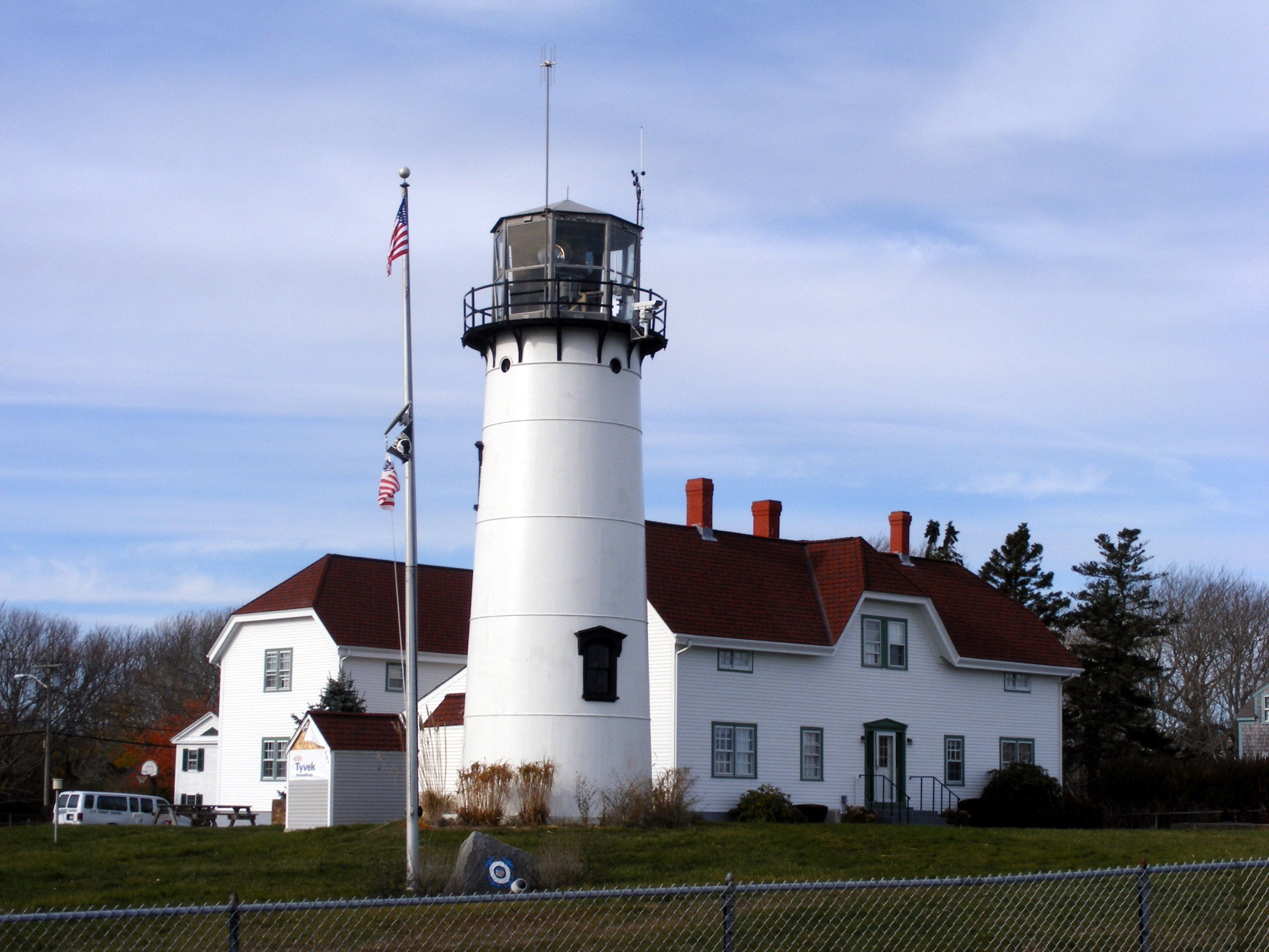 Chatham Light, located in Chatham, Massachusetts, USA.